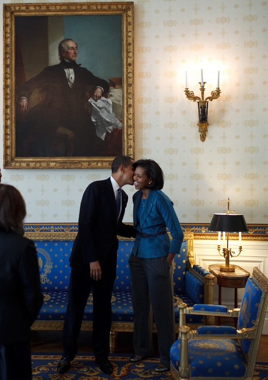 President Barack Obama kisses First Lady Michelle Obama in the Blue Room prior to meeting with the Congressional Black Caucus in the State Dining Room of the White House 2/26/09.